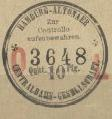 Ticket of the HAC